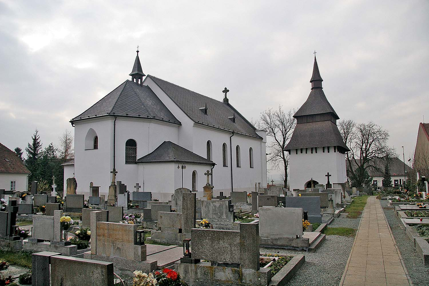 Church of the Transfiguration and bell tower in Bílý Újezd, Rychnov nad Kněžnou District, Czech Republic. autor: Prazak date: 1. 12. 2006